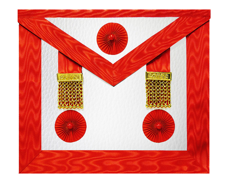 Masonic master apron in the Old and Accepted Scottish Rite.